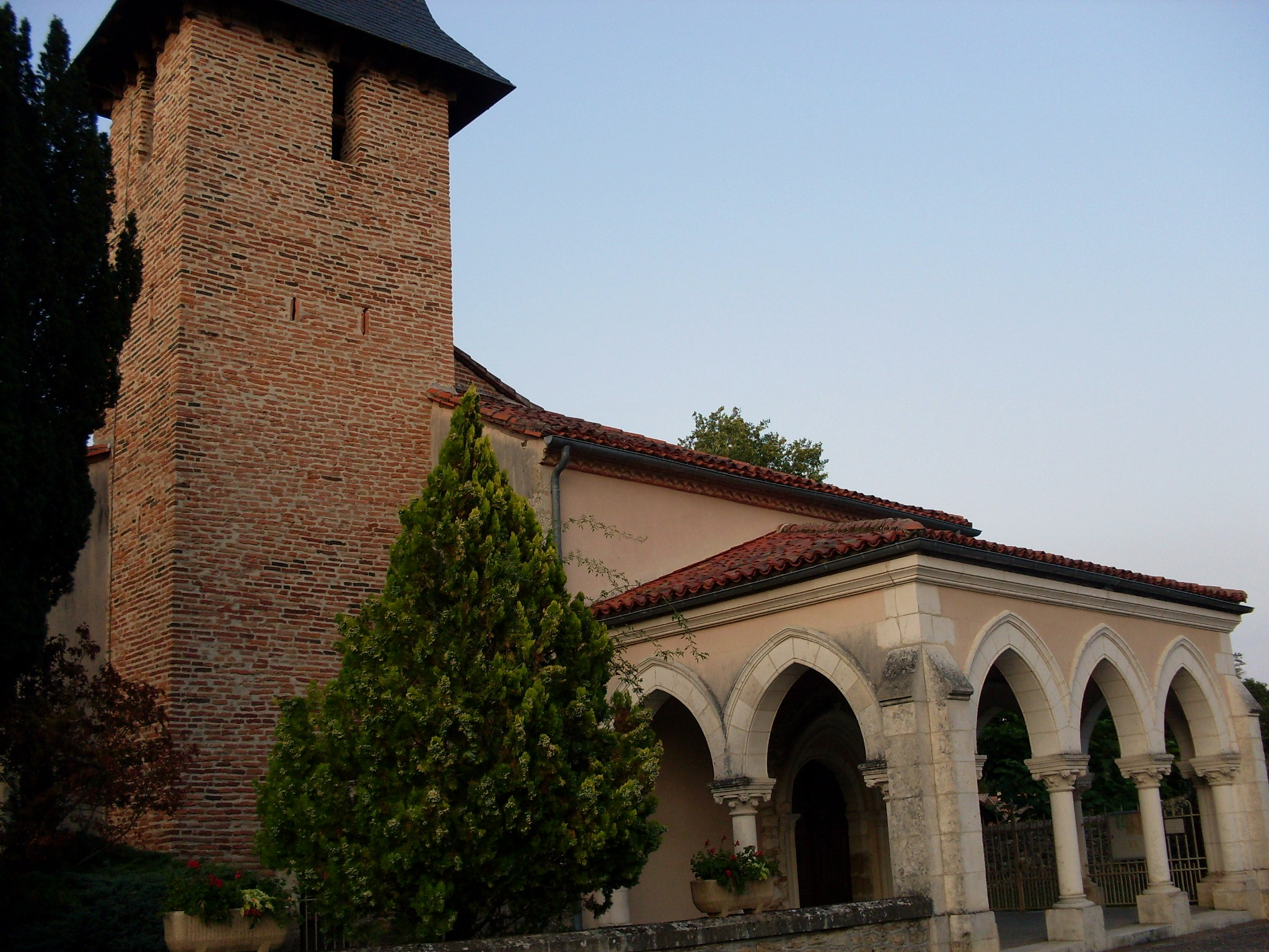 The church of Bélis, XIV th century, Landes, France